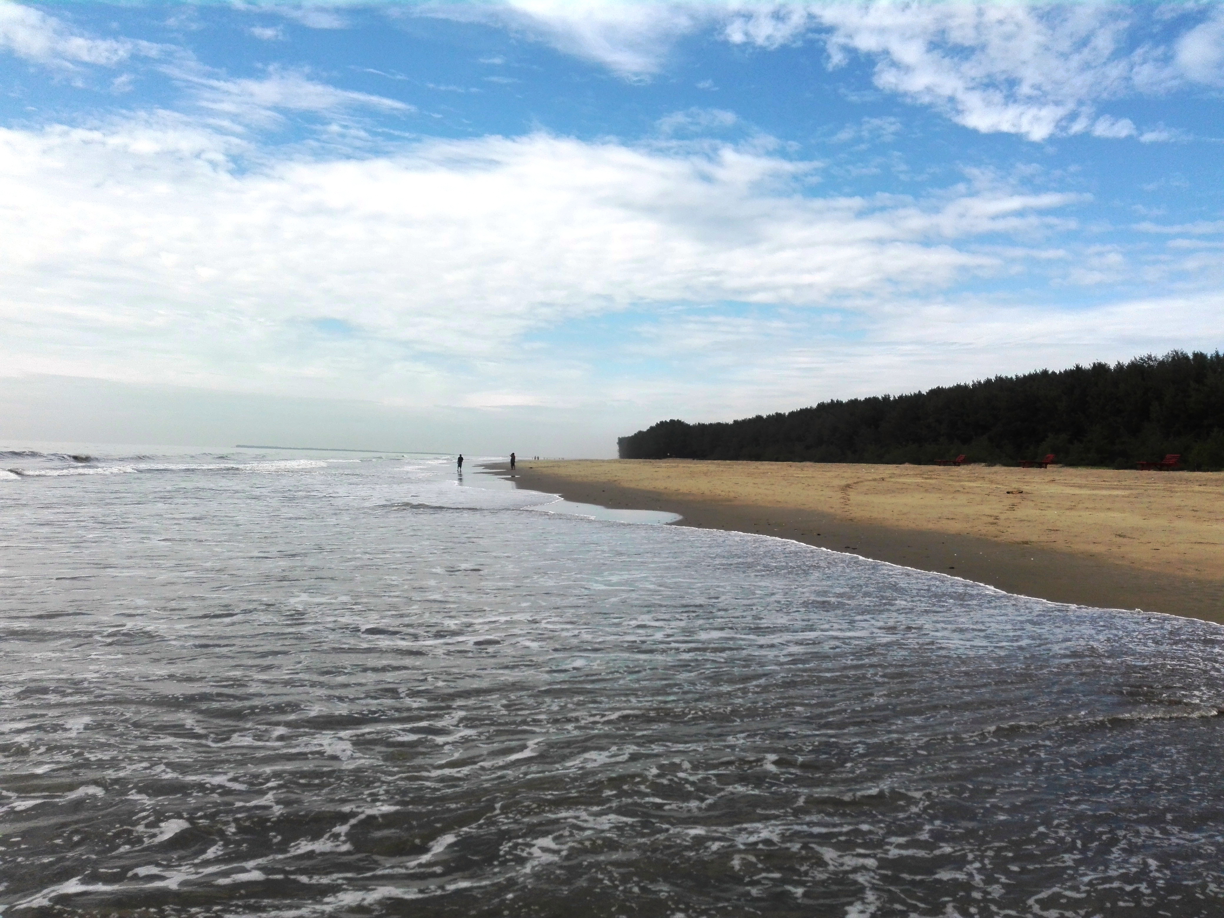 blue sky, sea and beach, cox's bazar